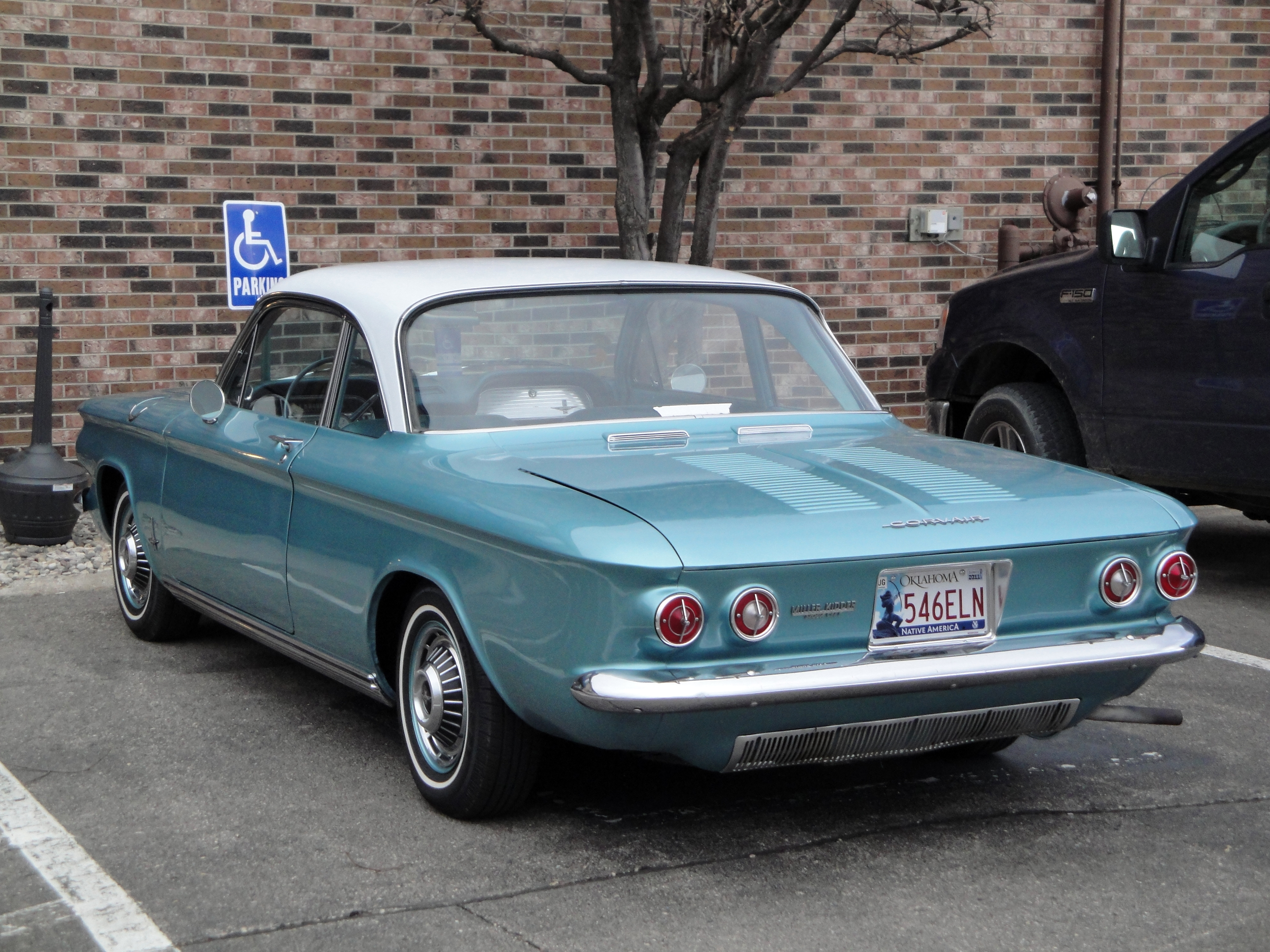 Corvair Monza in Minnesota at the end of winter